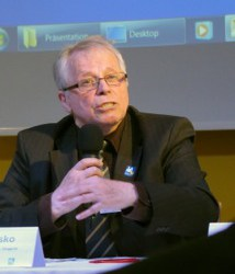 Picture of Siegfried Nasko